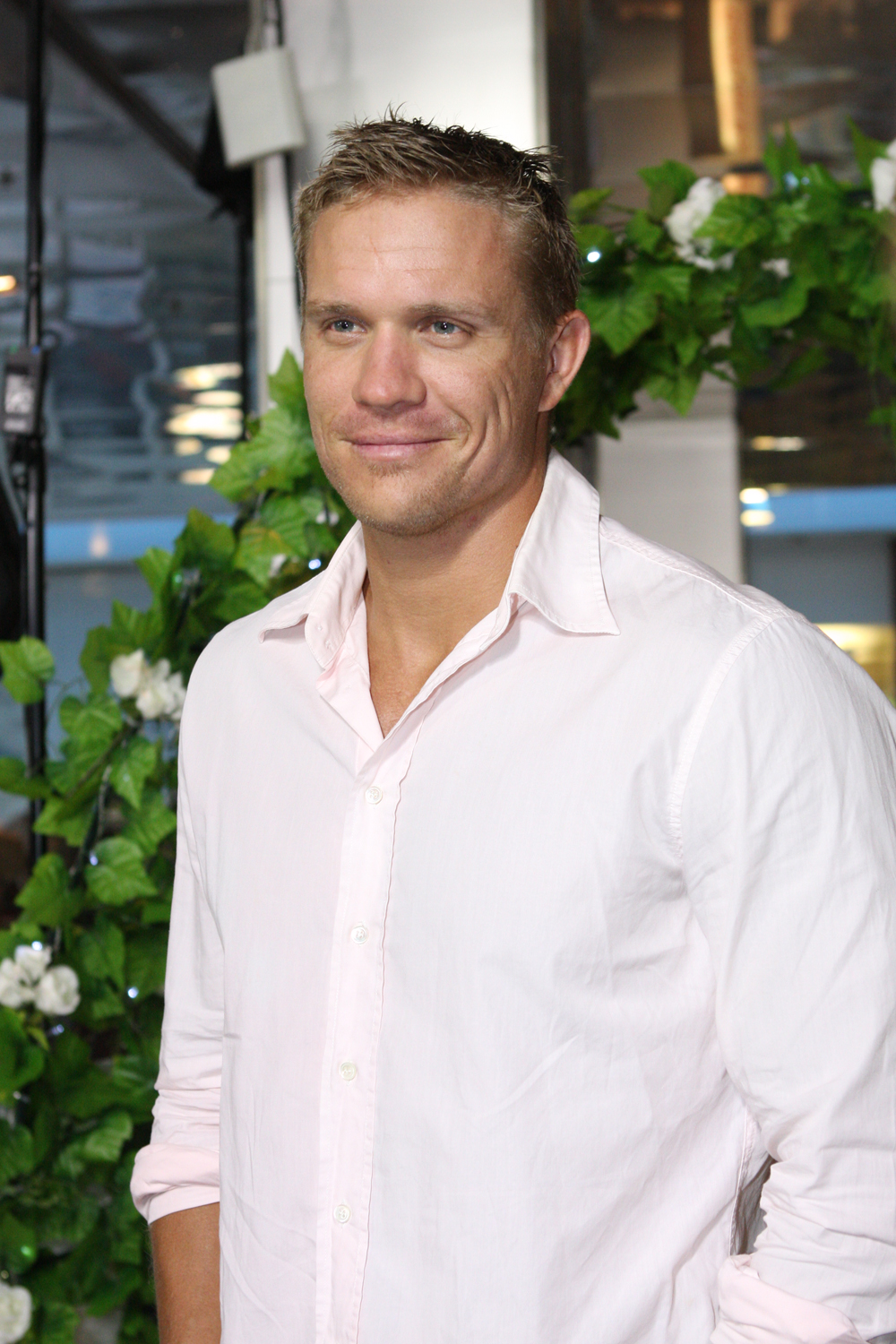 Australian actor Conrad Coleby at A Few Best Men movie premiere In Sydney, Australia, January 2012